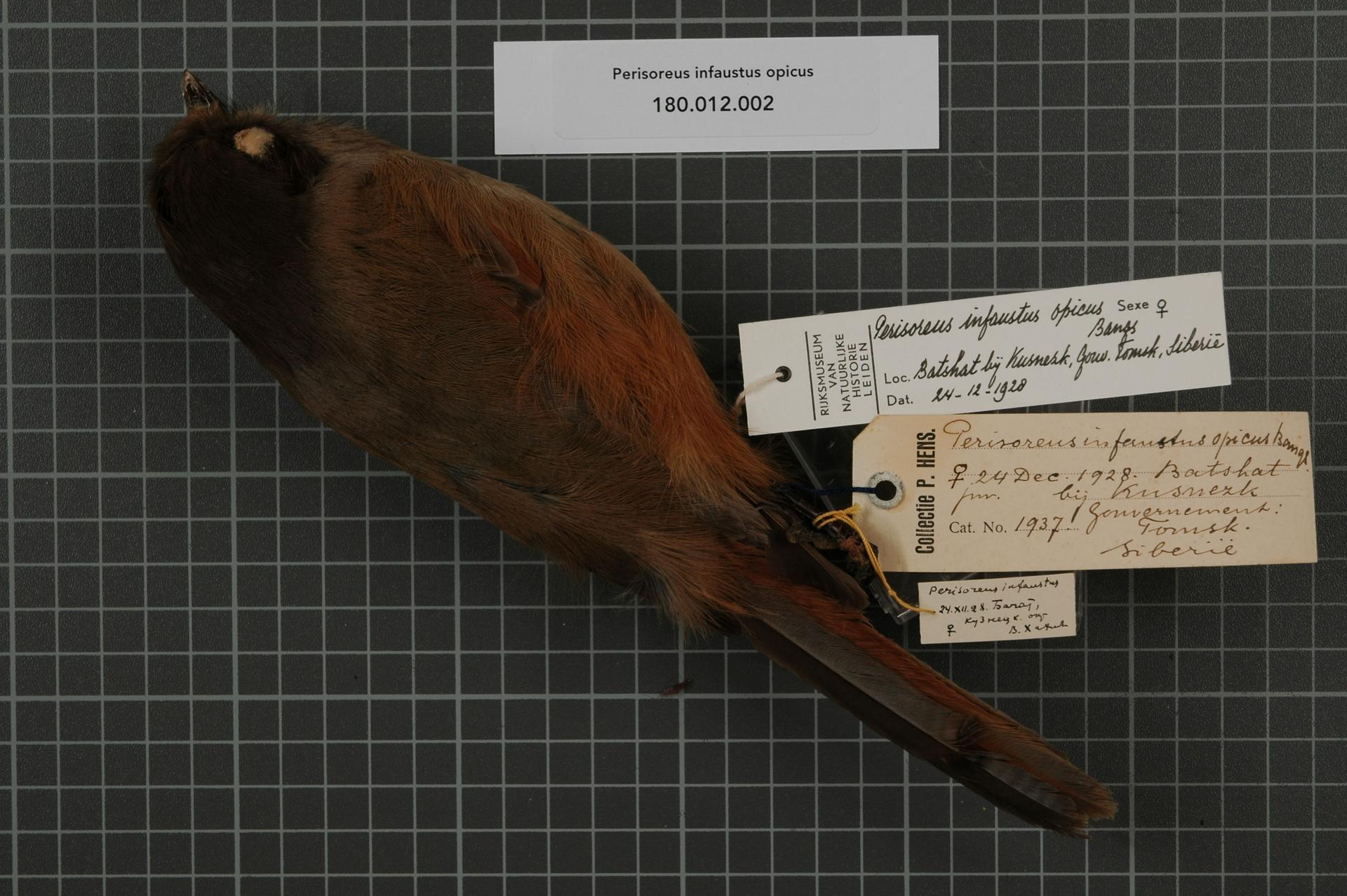 Perisoreus infaustus opicus Bangs, 1913